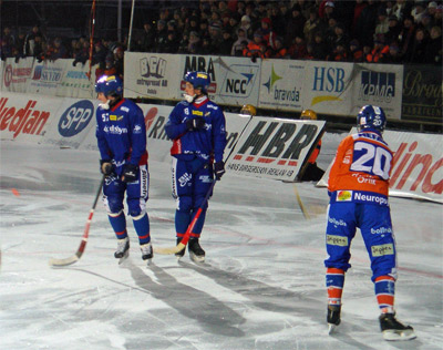 Bollnäs IF defeats Edsbyns IF, 7-3, in a game of the 2004-2005 men's bandy Allsvenskan at Sävstaås IP in Bollnäs, Sweden on 26 December 2004. The game was played in a freezing 20-25 degrees Celsius.